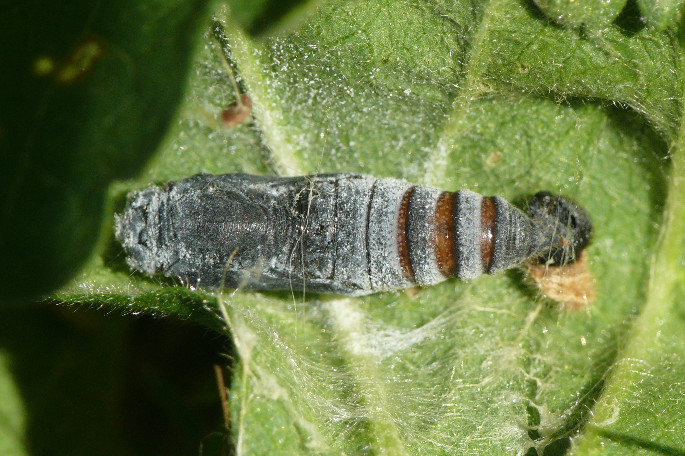 Pupa of the Mallow Skipper (Carcharodus alceae), Landkreis Ebersberg, Bavaria, Germany